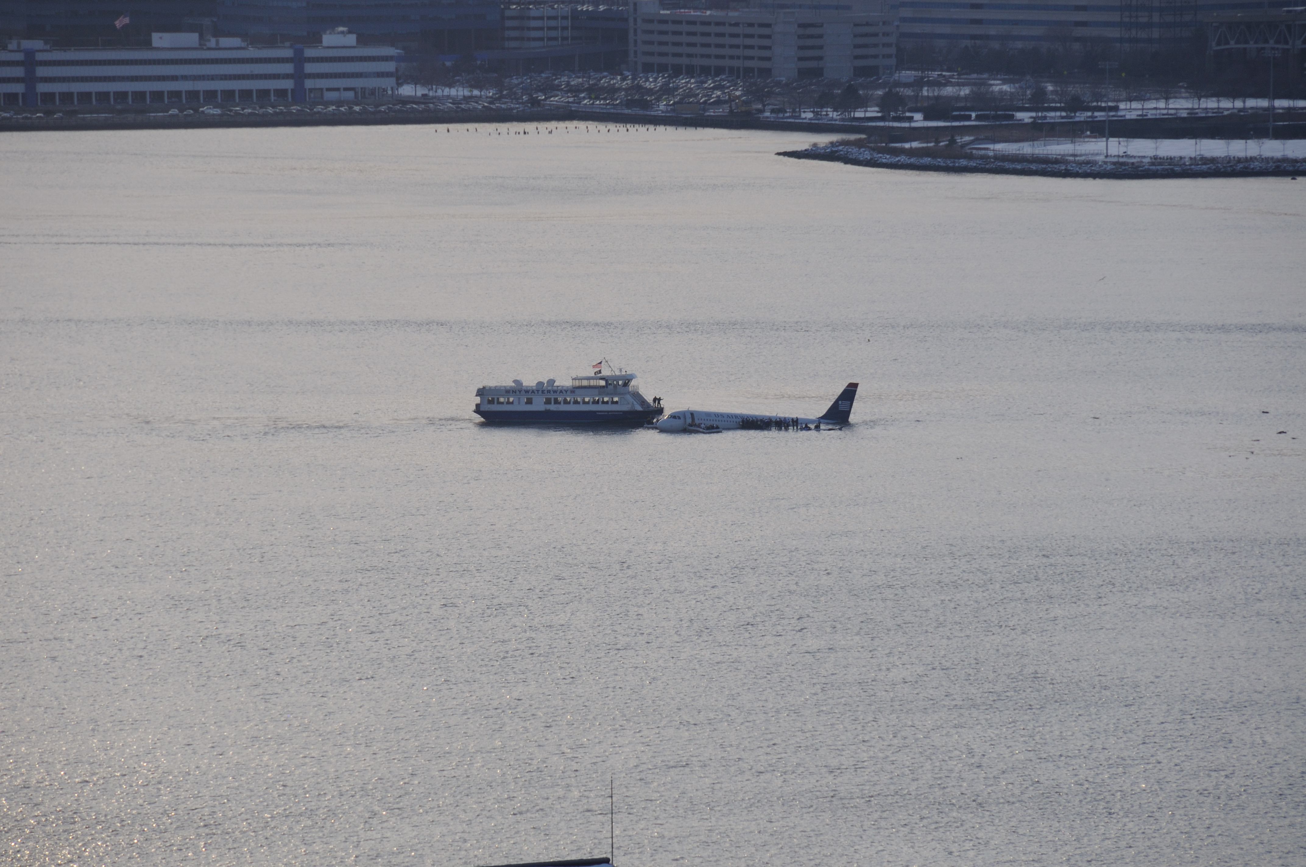 US Airways Flight 1549 in the Hudson River, New York, USA on 15 January 2009.